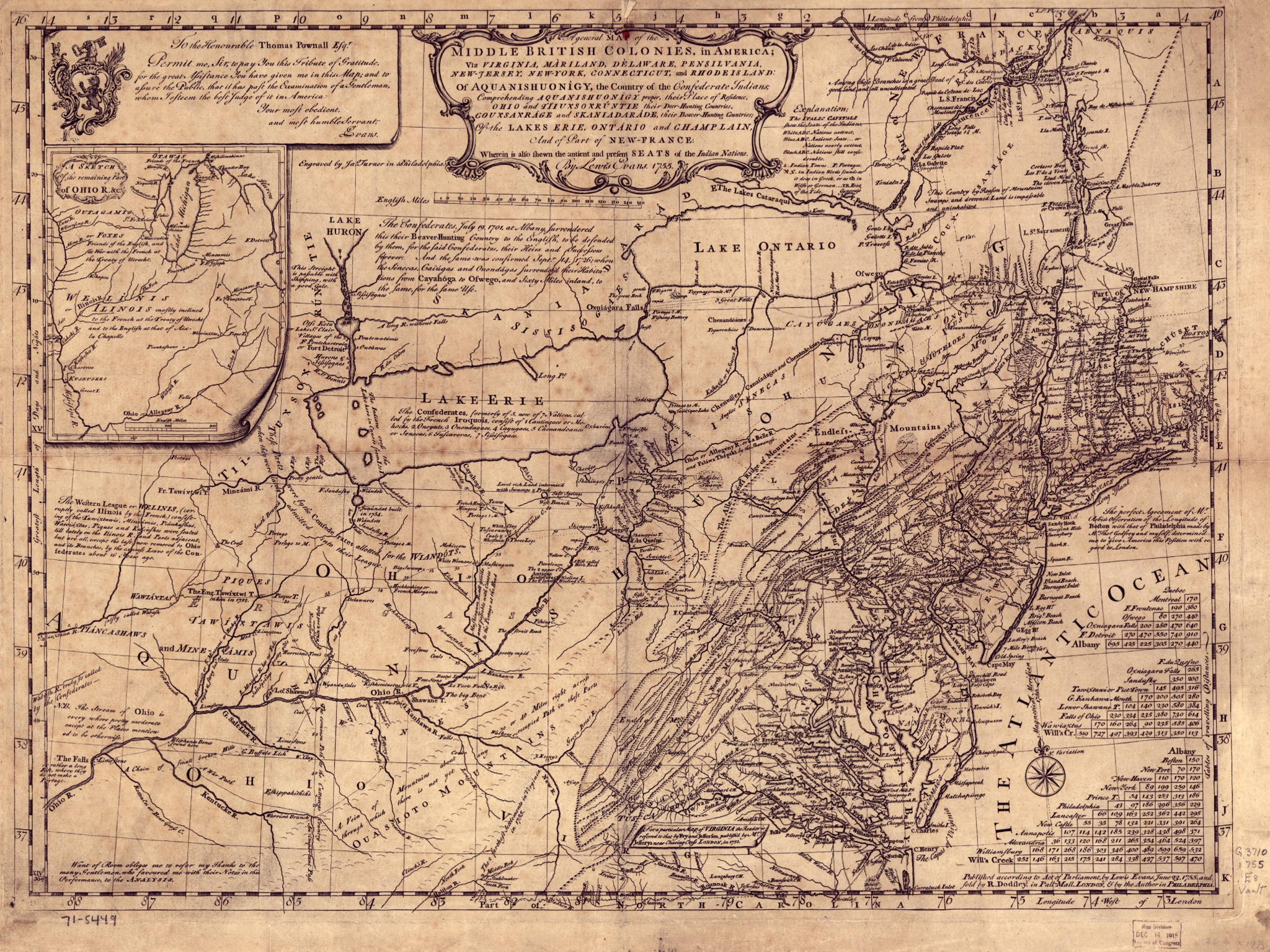 The "Evans-Pownall" map of eastern North America.